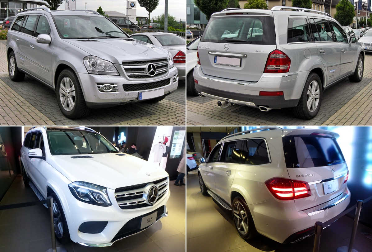 The two series (X164 and X166) of the Mercedes-Benz GL-GLS-Class compared.